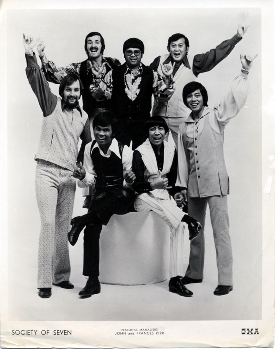 The original members of the Hawaii-based Society of Seven from its inception in 1969 pose in a promotional photograph.